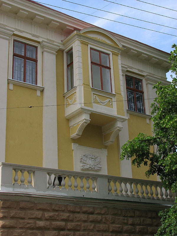 Arsenal of Seniavski-Family in Lviv, Ukraine